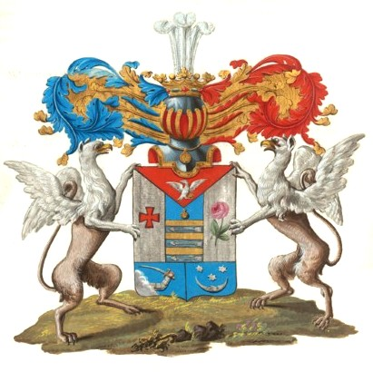 Coat of Arms of Hvostovy family